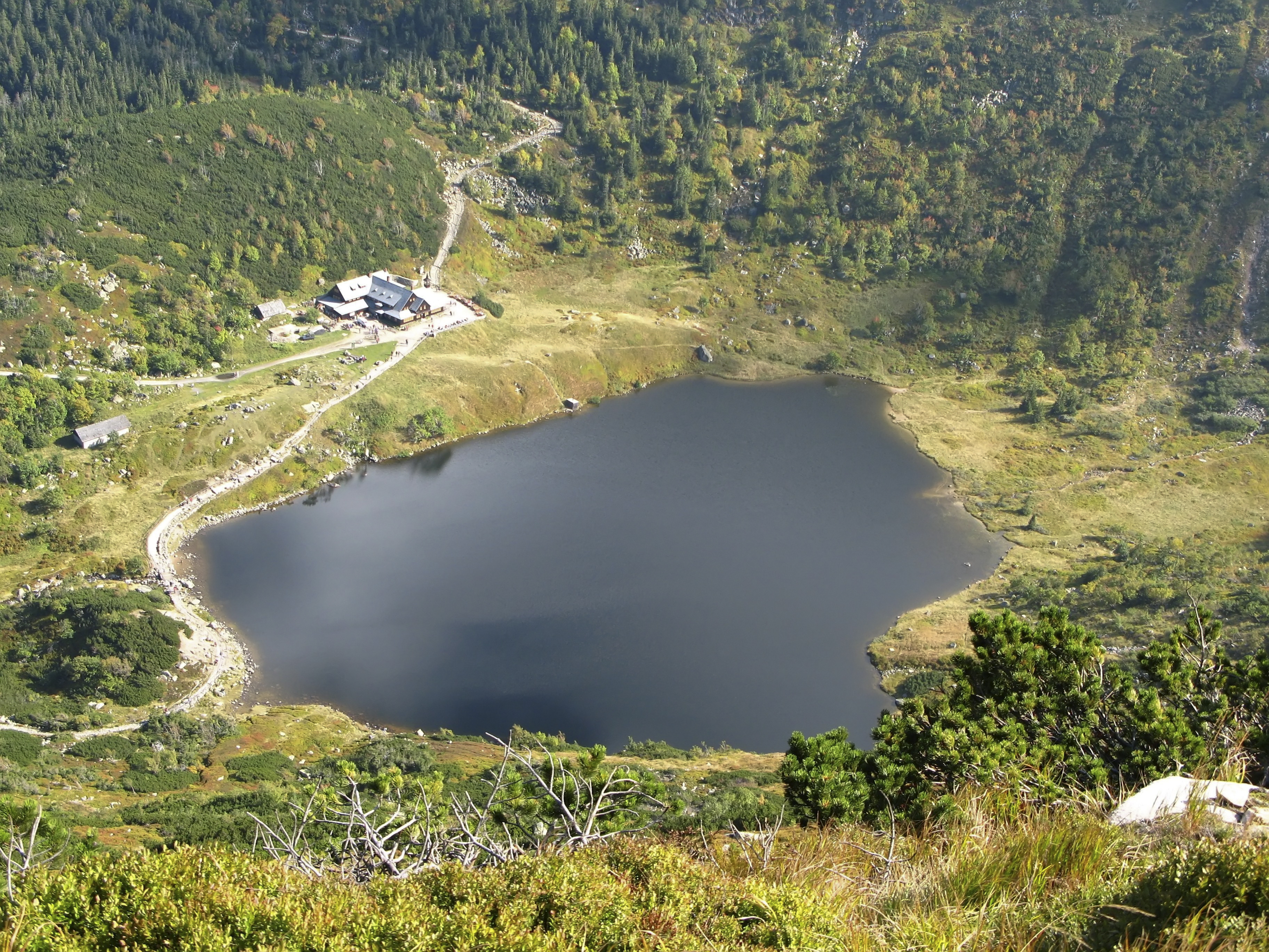 Karkonosze, Poland